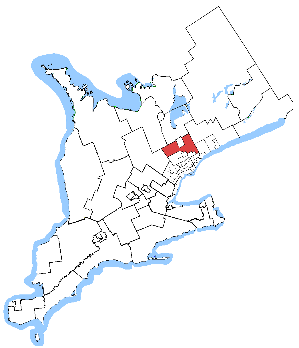 Map of the Oak Ridges—Markham electoral district. Based on Earl Andrew's maps, created by SimonP.